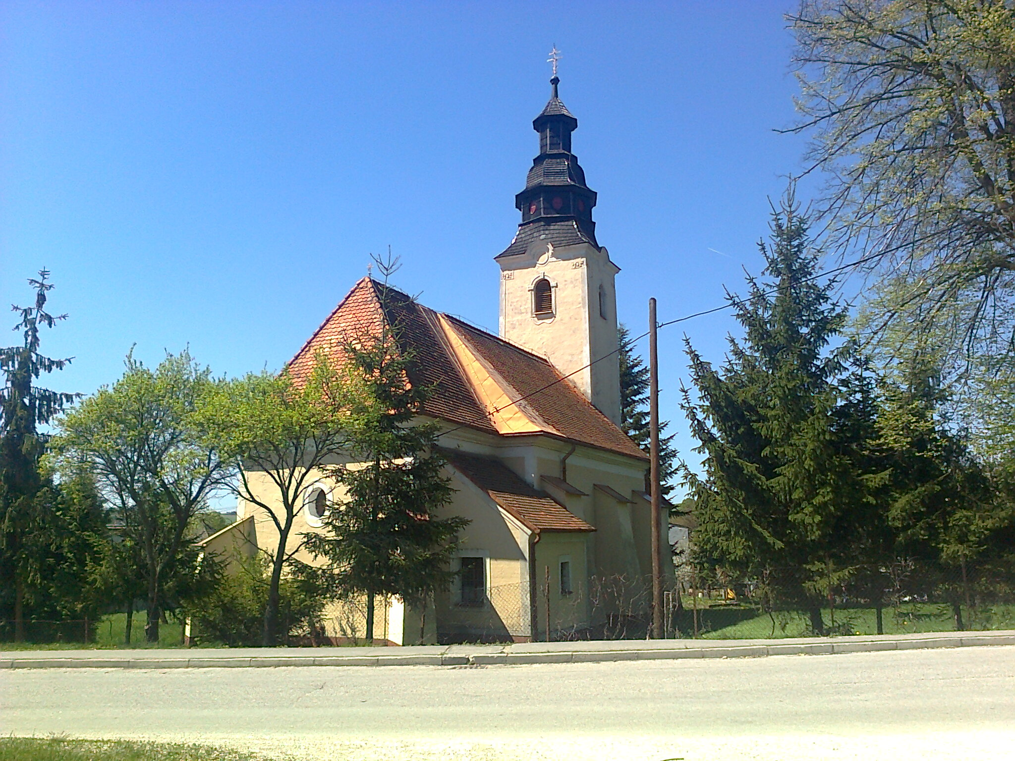 Roman Catholic church built in the year 1422